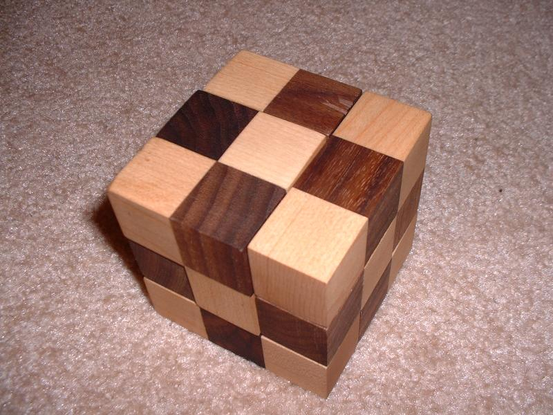 Soma puzzle cube: assembled.